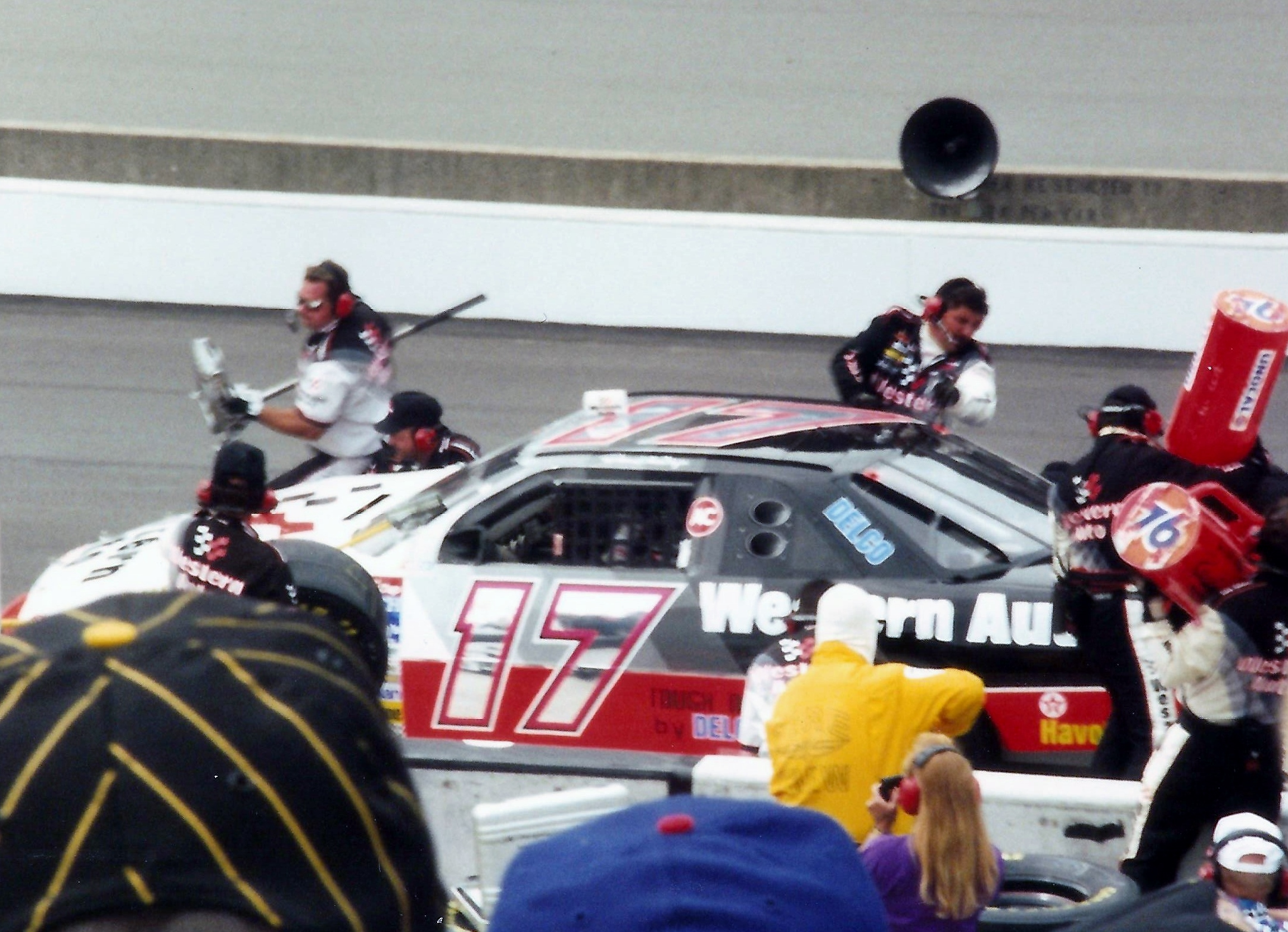 1994 NASCAR Brickyard 400 at the Indianapolis Motor Speedway. Darrell Waltrip during a pit stop.